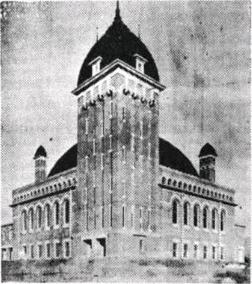 The Granite Stake Tabernacle (later called the Grant Stake Tabernacle) was built in 1903 and is no longer standing today. It was located at the northeast corner of 3300 South and State Street, Salt Lake City, Utah. This picture is an enlargement of a small photograph published in 1904.